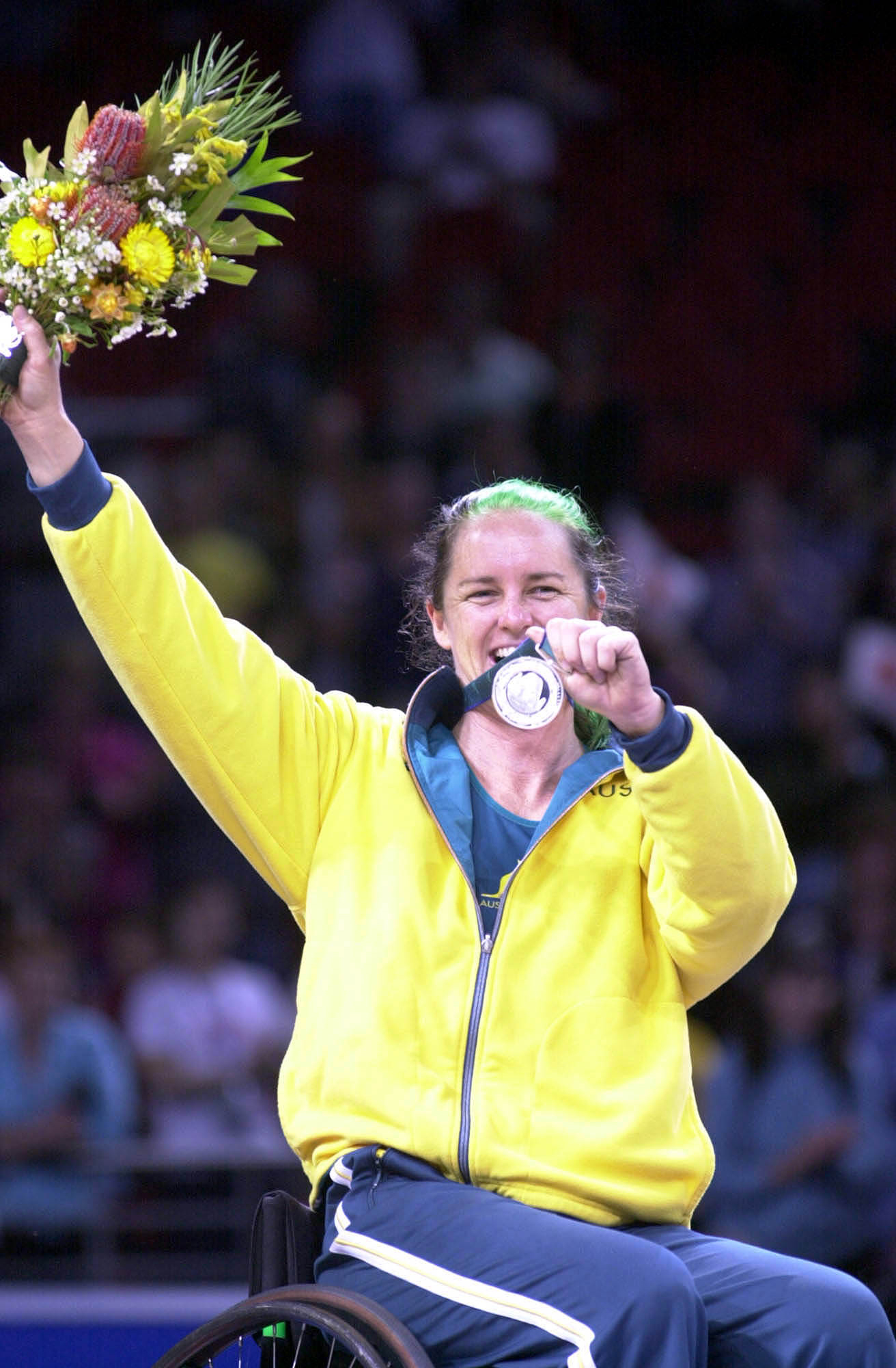 Australian wheelchair basketballer Liesl Tesch shows her silver medal at the 2000 Sydney Paralympic Games